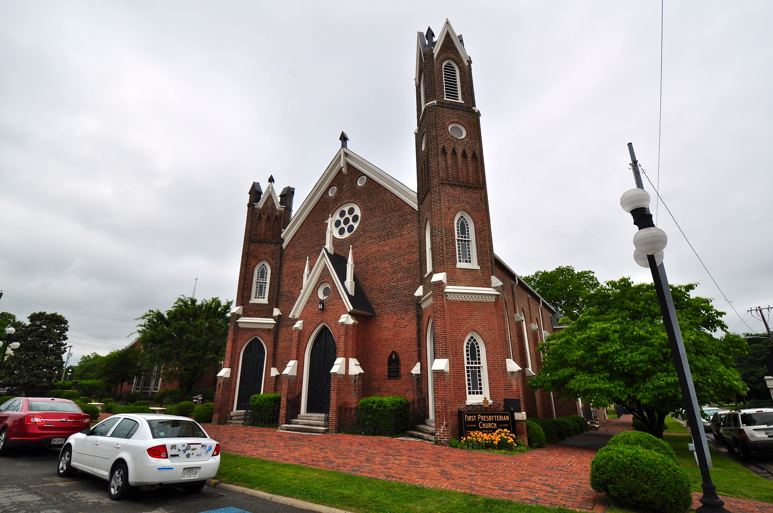 Located at Pulaski, Giles County, Tennessee. NRHP Reference #83003032, listed 28 July 1983.